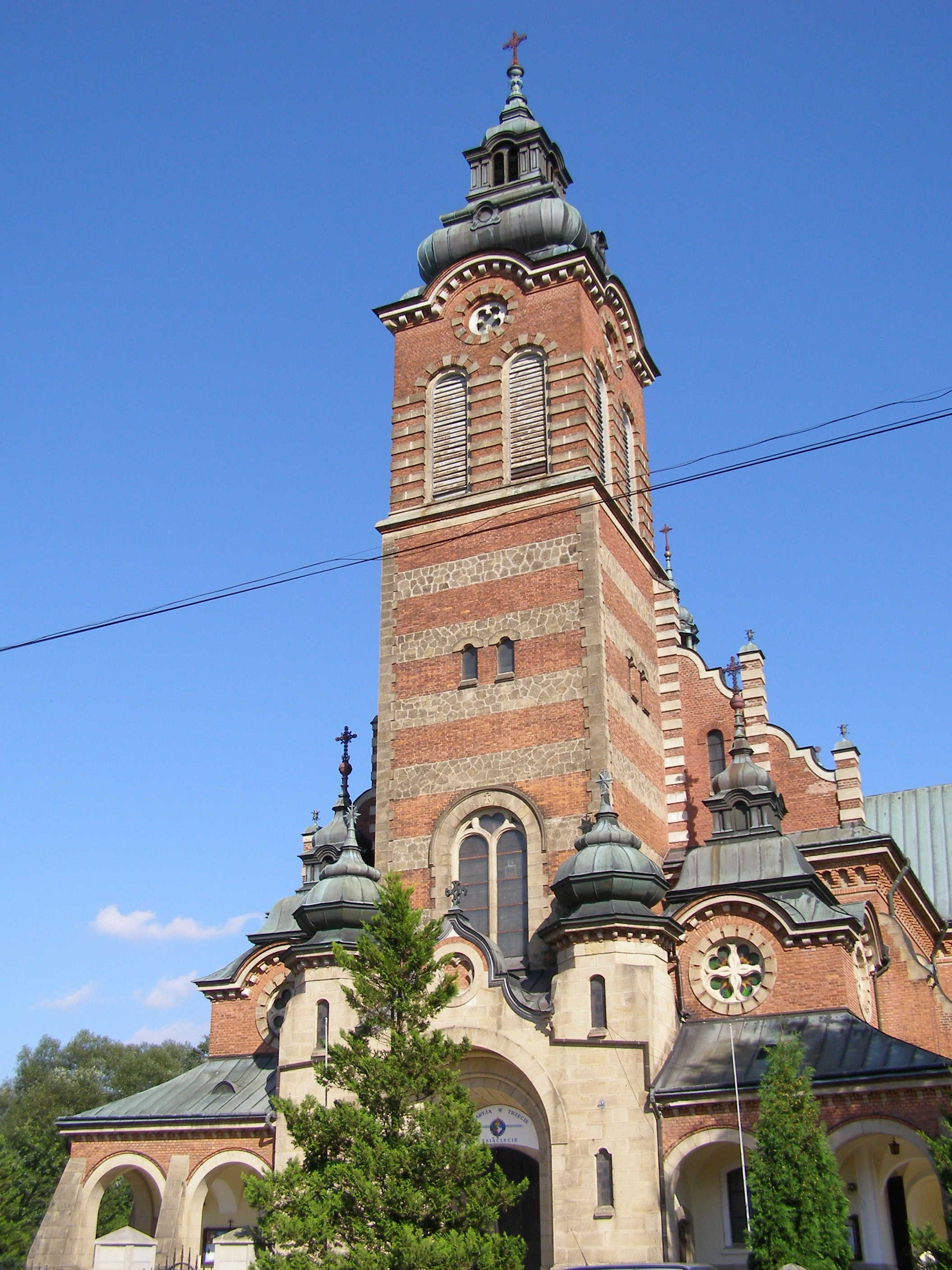 Ryglice - parish church of St. Catherine of Alexandria